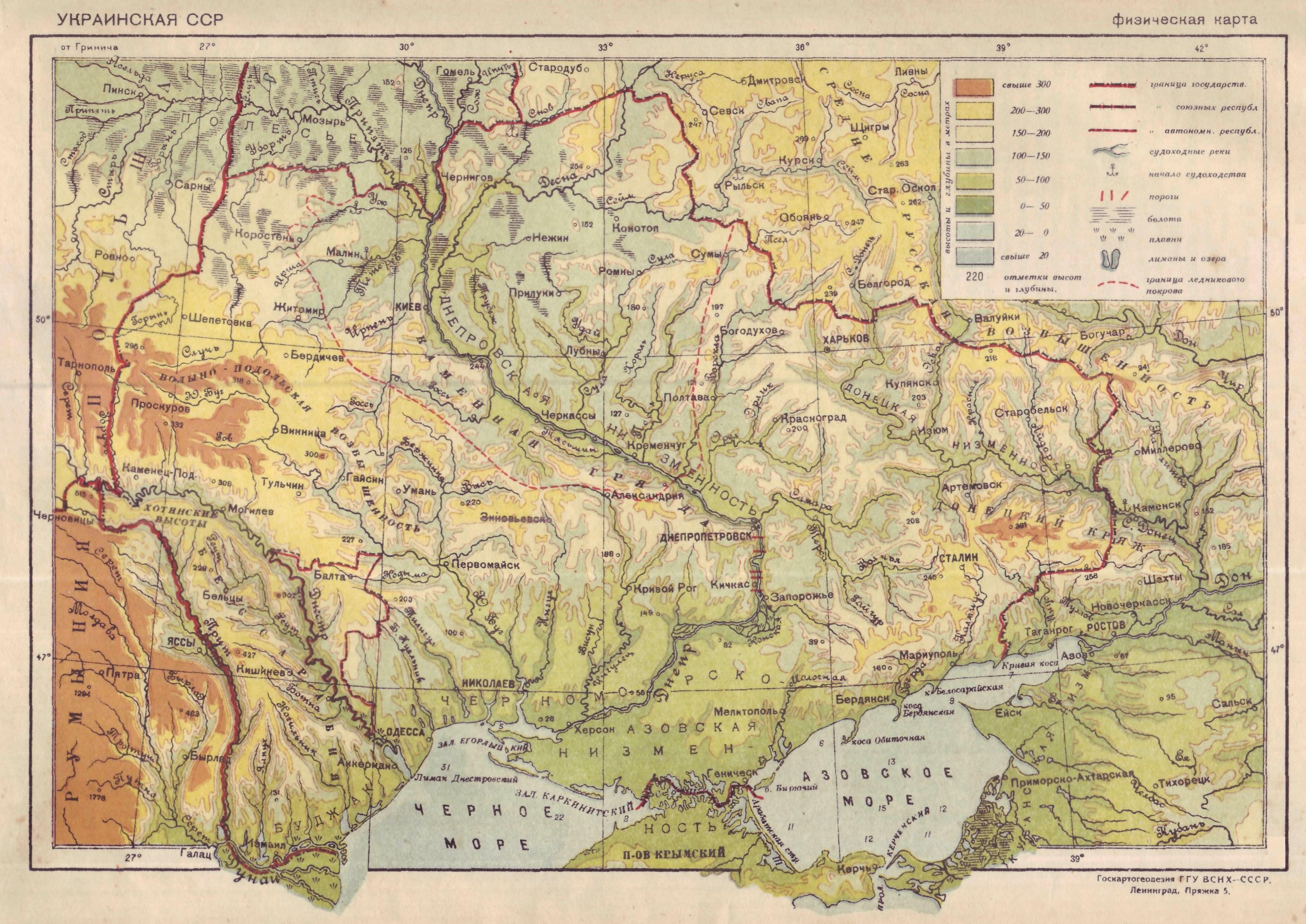 Map of the Ukrainian SSR, 1931